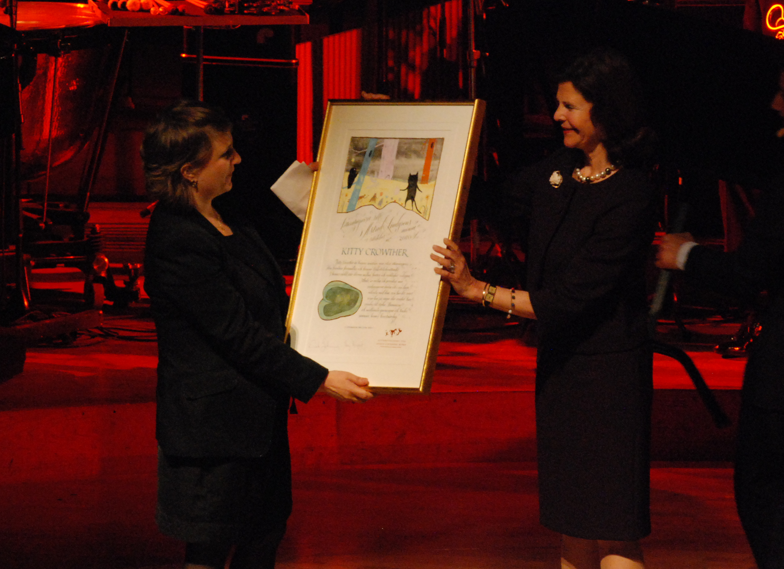 Award ceremony of the Astrid Lindgren Memorial Award 2010: Kitty Crowther gets the prize by Queen Silvia of Sweden